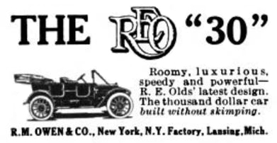 REO - R. M. Owen & Co. - 1912